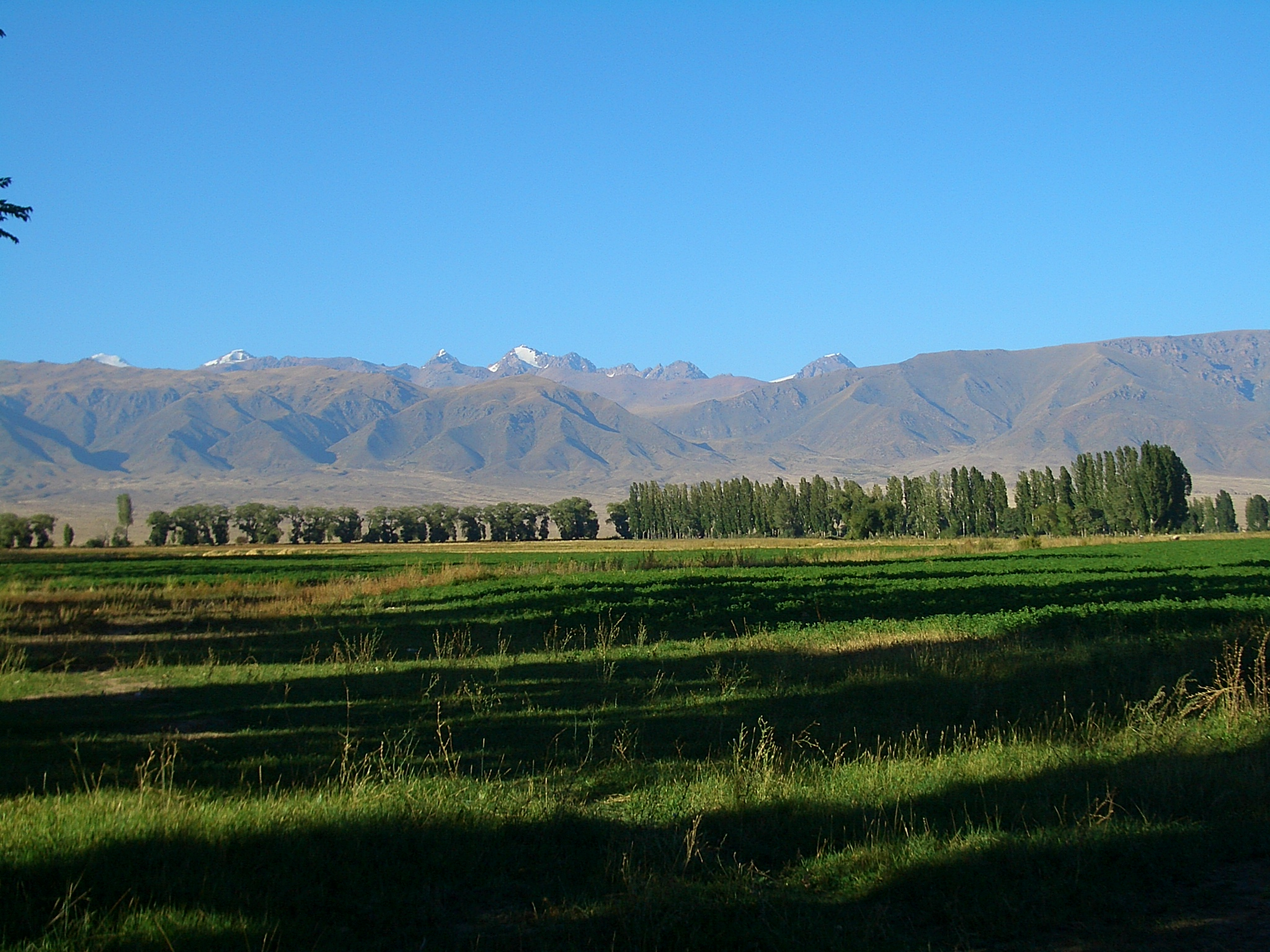 A field outside Tamchy (Issyk Kul Province, Kyrgyzstan) in the evening, with a row of poplars along a creek (an aryk), and the Kyungei Alatoo Range in the background.